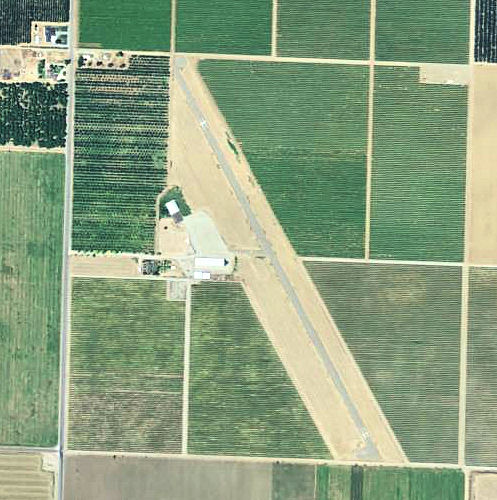 USGS digital orthophoto of Exeter Airport in California